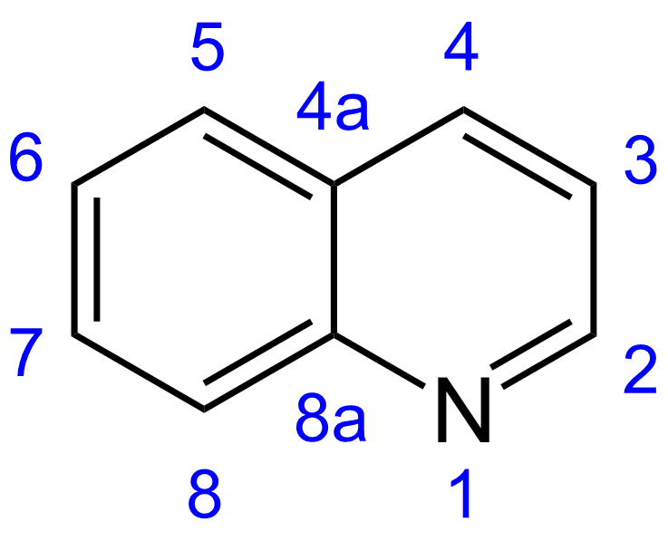 Chinolin nummeriert